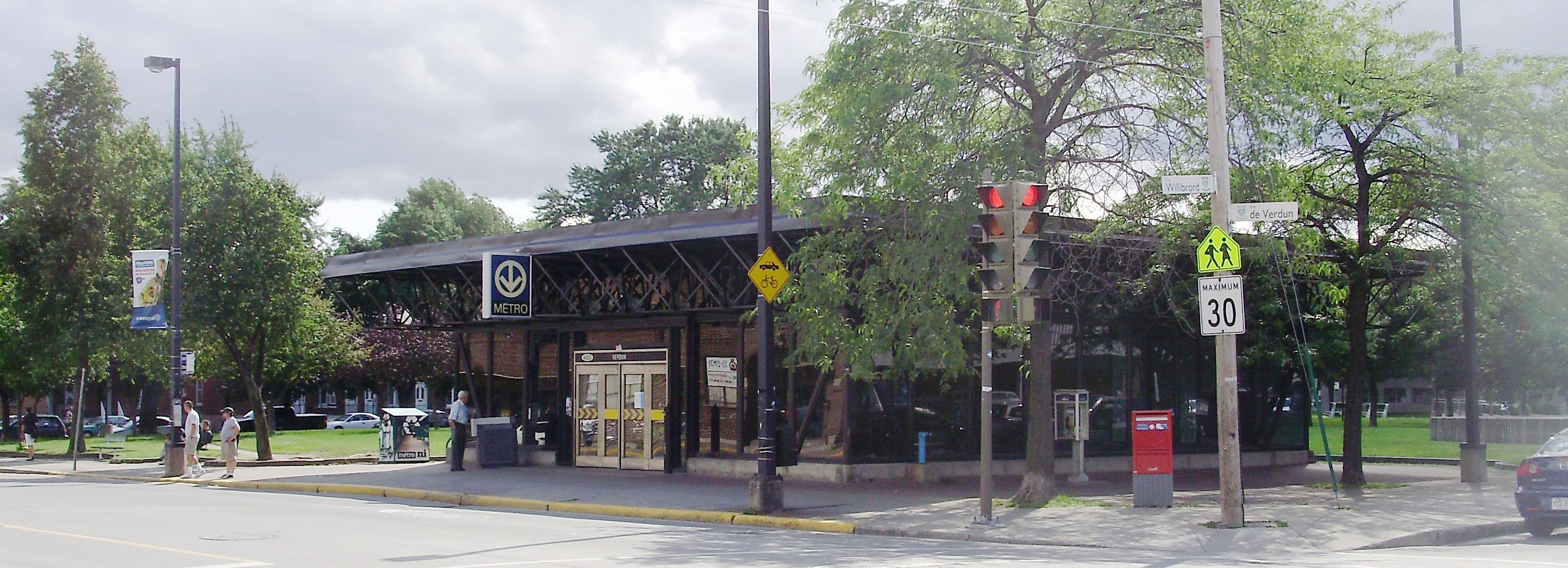 The Société de transport de Montréal's Verdun metro station in Montreal, Quebec, Canada.